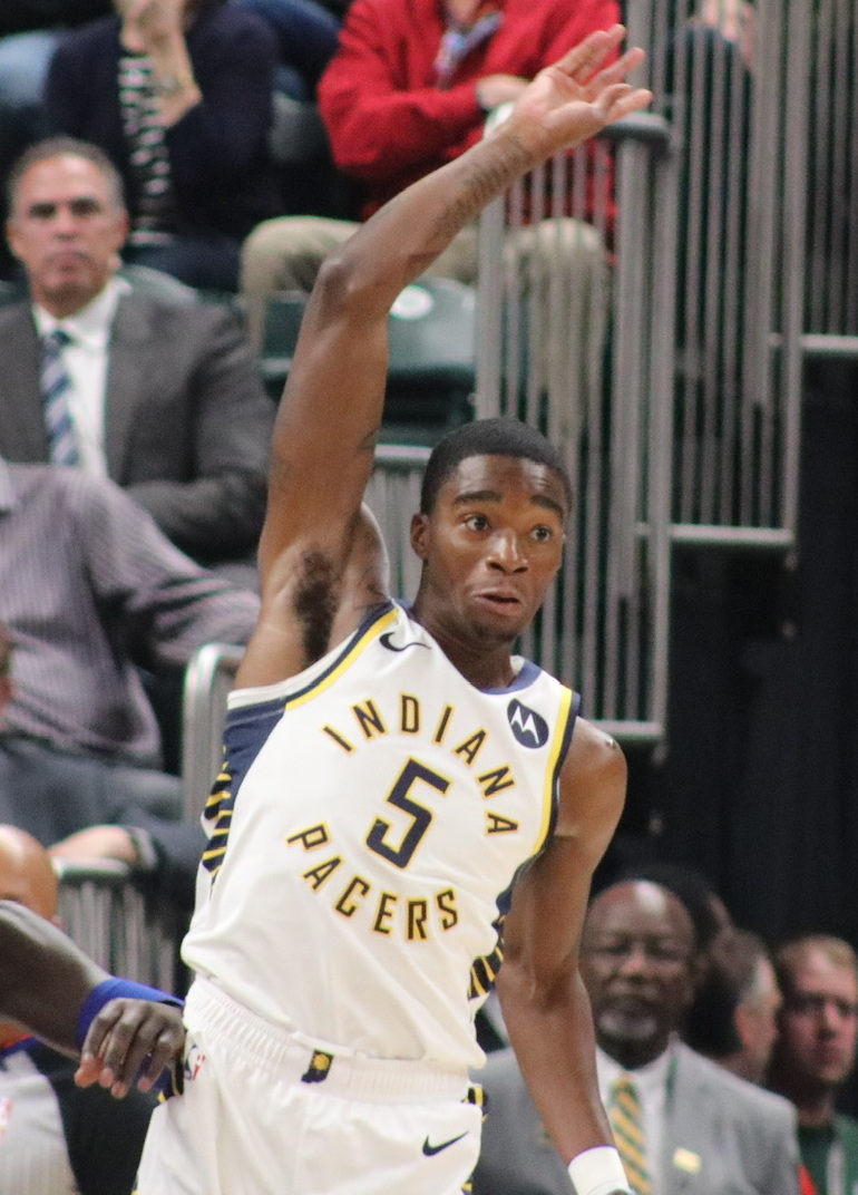 Luke Kennard of the Detroit Pistons goes up for a shot while Edmond Sumner of the Indiana Pacers and Thon Maker of the Detroit Pistons look on.